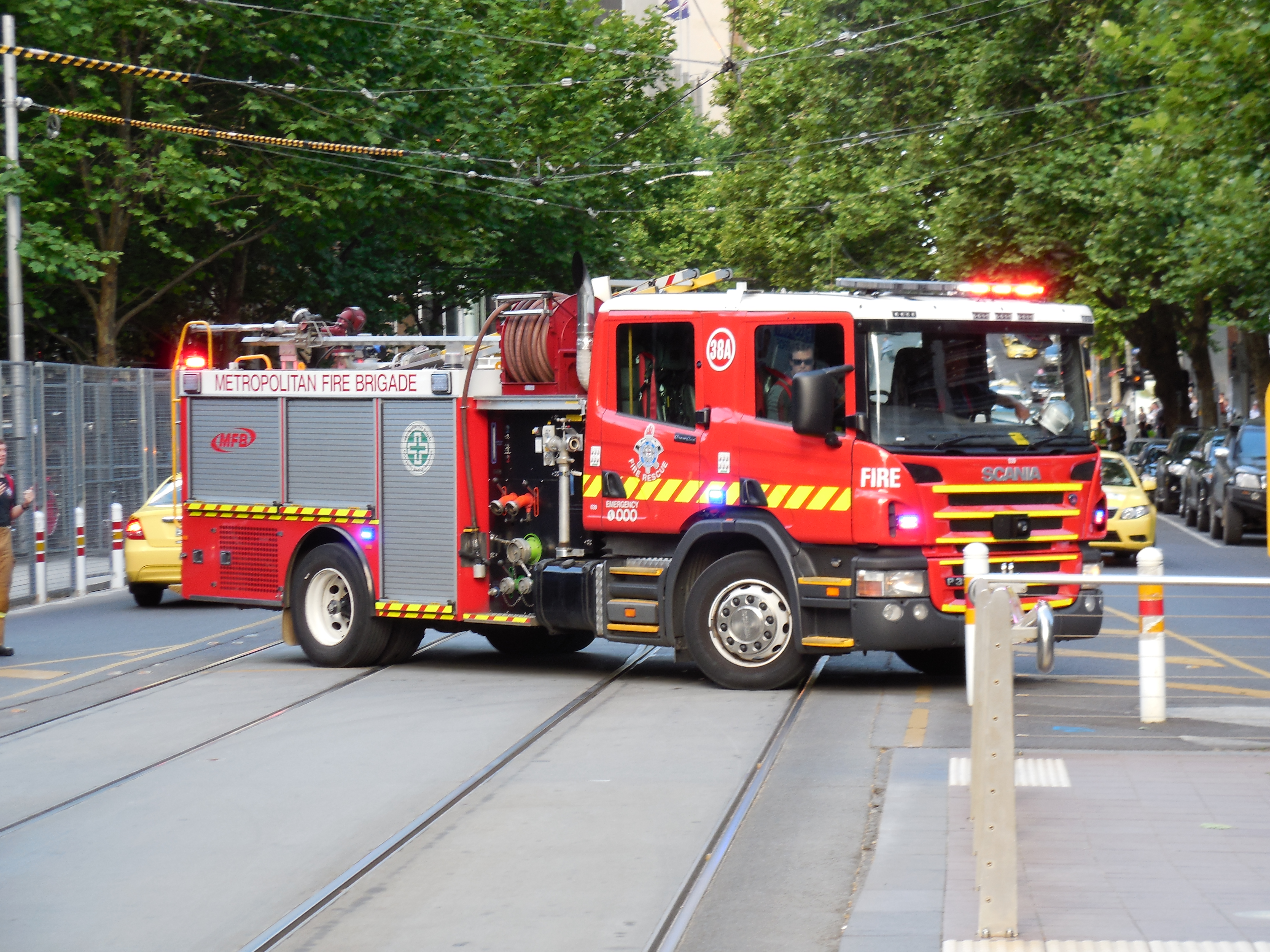 A Melbourne City fire truck parked across the tram tracks in Spencer St End of Collins St in Melbourne Central Business District, Victoria, Australia